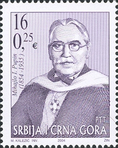 150 Years since the birth of Mihailo Pupin